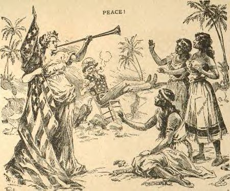 1898 newspaper cartoon which shows as Uncle Sam watches the "Goddess of Liberty" heralding freedom for Cuba, Puerto Rico and the Philippines. Author unknown